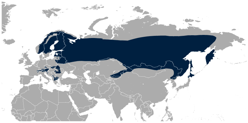 Geographical distribution of the (Eurasian) Three-toed Woodpecker Picoides tridactylus in Eurasia, along with national borders. Note: IUCN does not recognize the American Three-toed Woodpecker Picoides (tridactylus') dorsalis as separate species. The map was created using the Generic Mapping Tools, GMT, version 5.1.2.